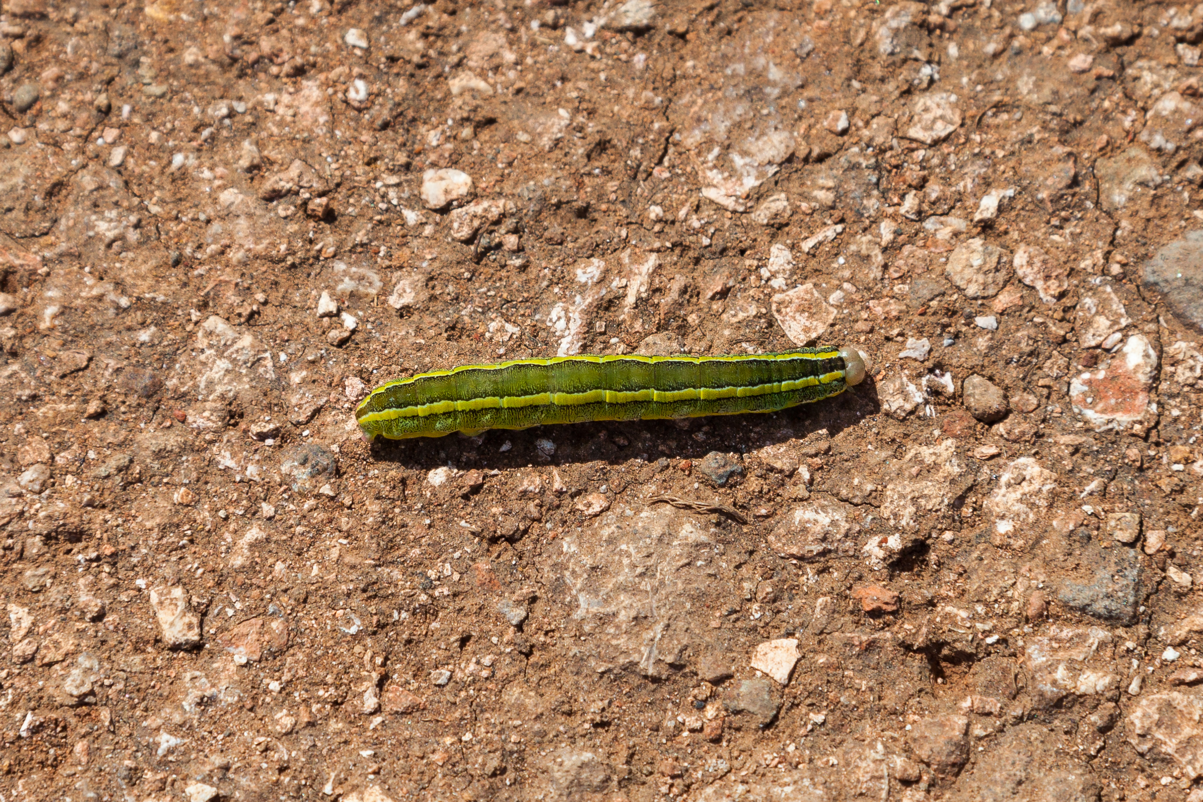 Caterpillar (Ceramica pisi), Geysir Geothermal Field, Suðurland, Iceland